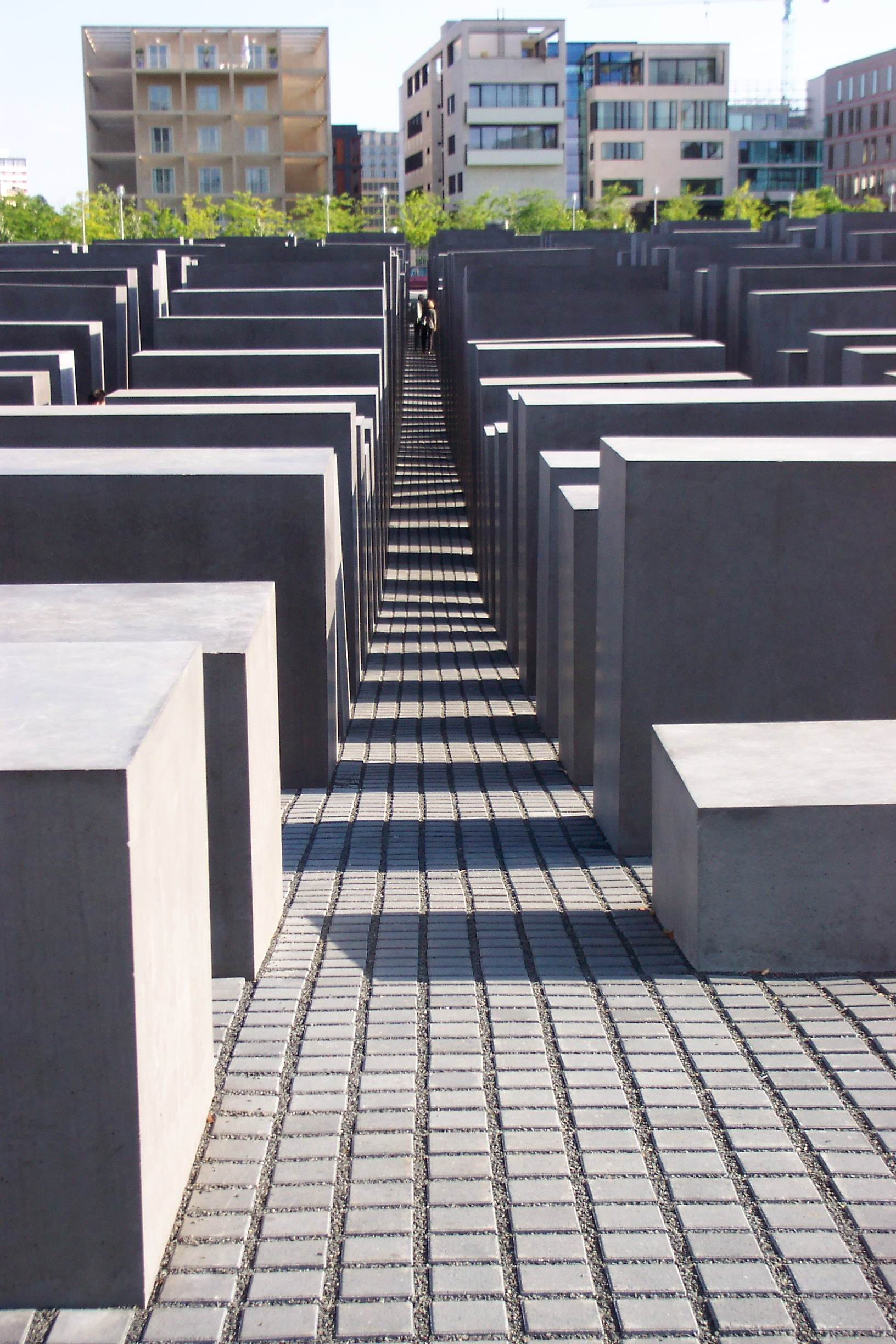 View of a path in the Berlin Holocaust Memorial in Berlin, Germany.